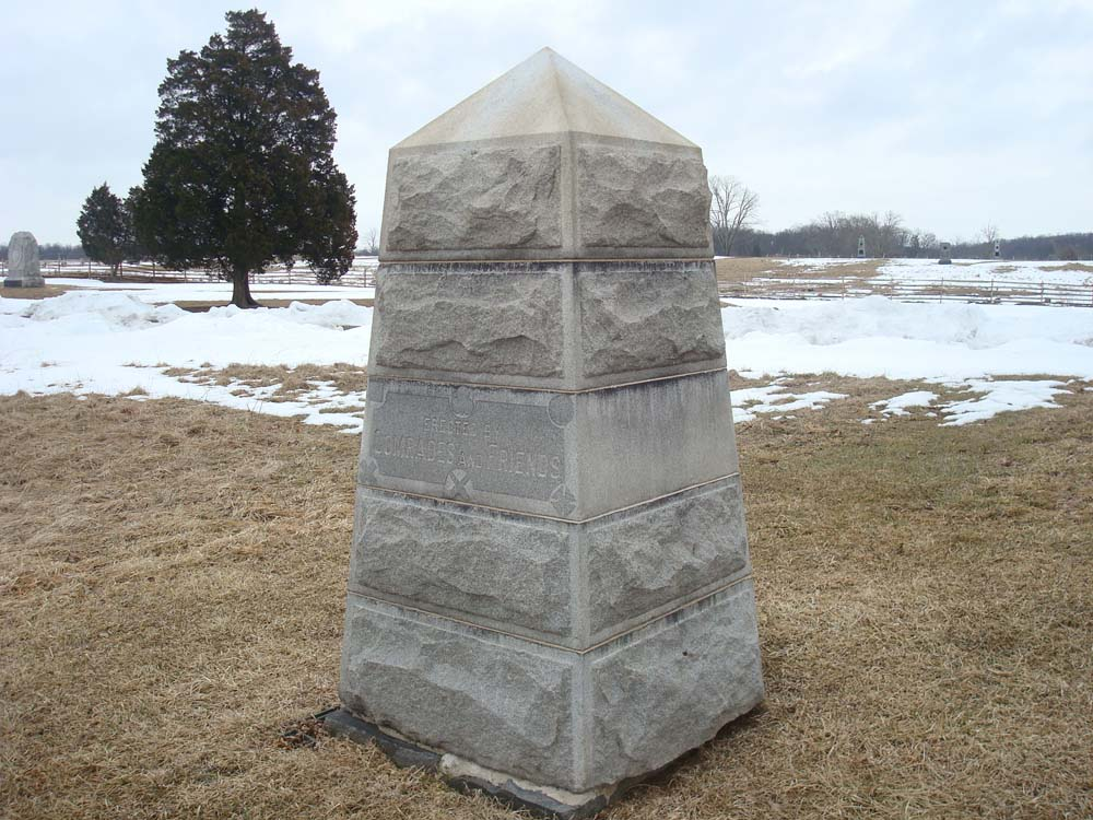 Major-General Winfield S. Hancock Wounded Marker, Hancock Avenue, Gettysburg Battlefield.